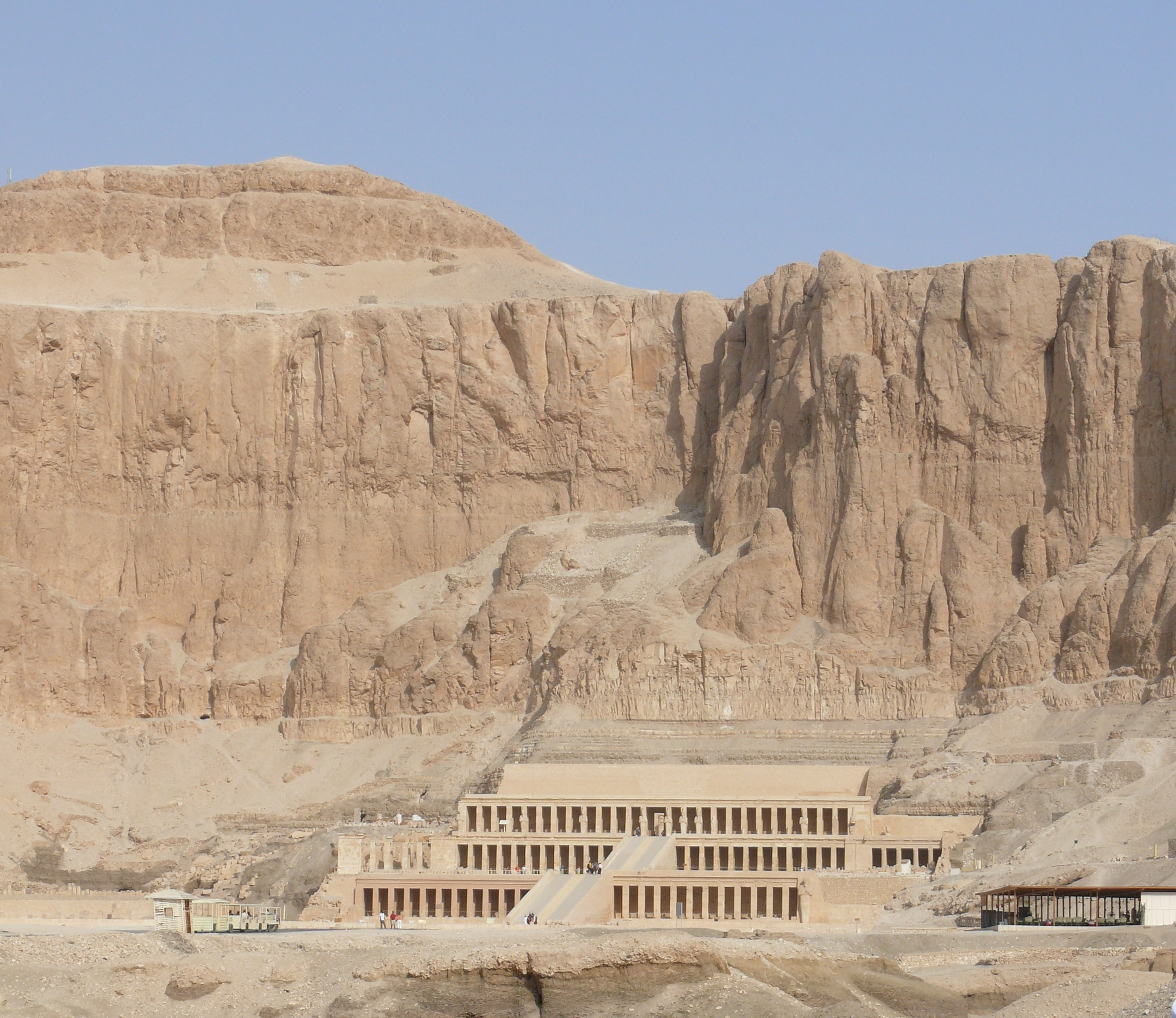 The Mortuary Temple of Queen Hatshepsut, located beneath the cliffs at Deir el Bahari on the west bank of the Nile near the Valley of the Kings in Egypt.